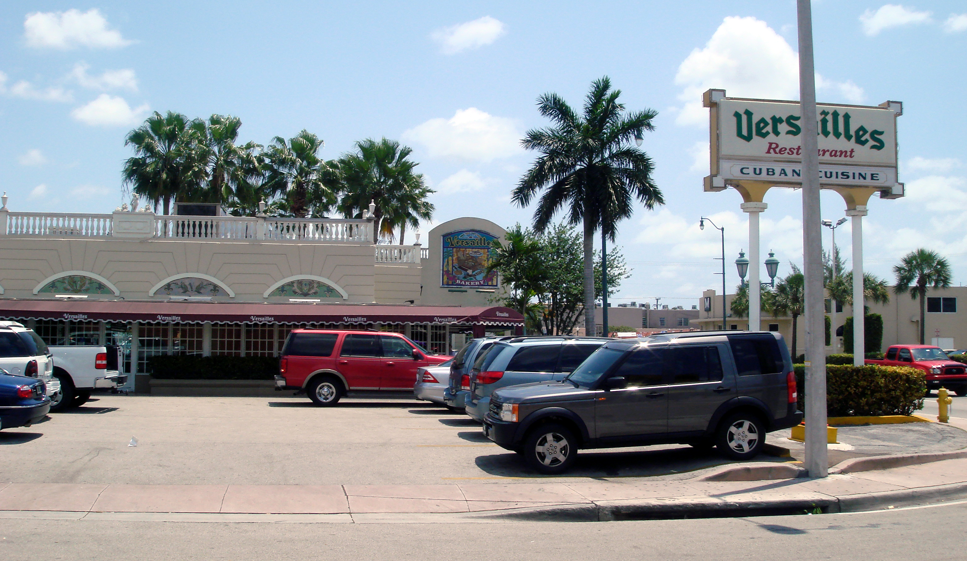 Exterior of Versailles Restaurant in Little Havana, Miami, Florida.